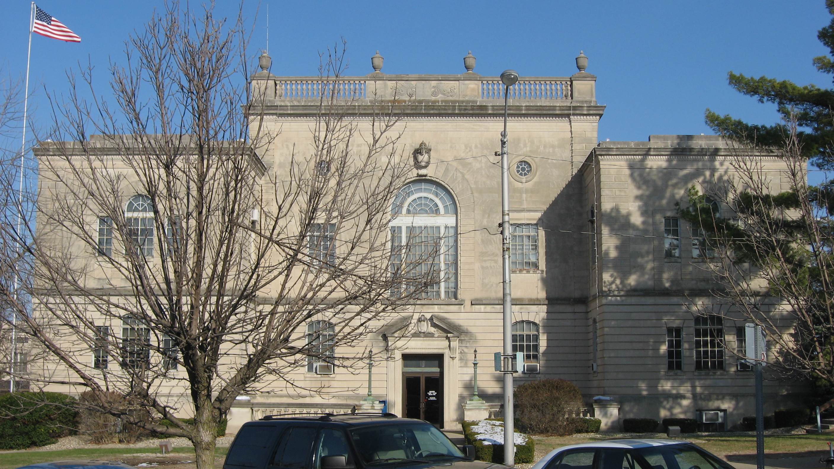 Southern front of the Lawrence County Courthouse, located on Courthouse Square in downtown Bedford, Indiana, United States. Built in 1930, it is part of the Bedford Courthouse Square Historic District, a historic district that is listed on the National Register of Historic Places.